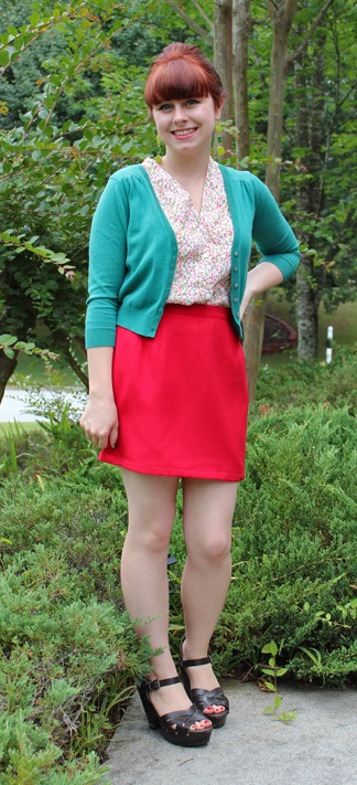 Woman wearing a red miniskirt with green cardigan and floral print blouse.